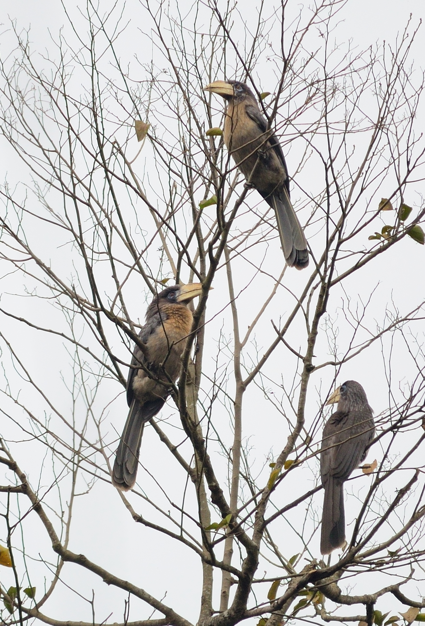 Austen's Hornbills from Namdapha National Park, India